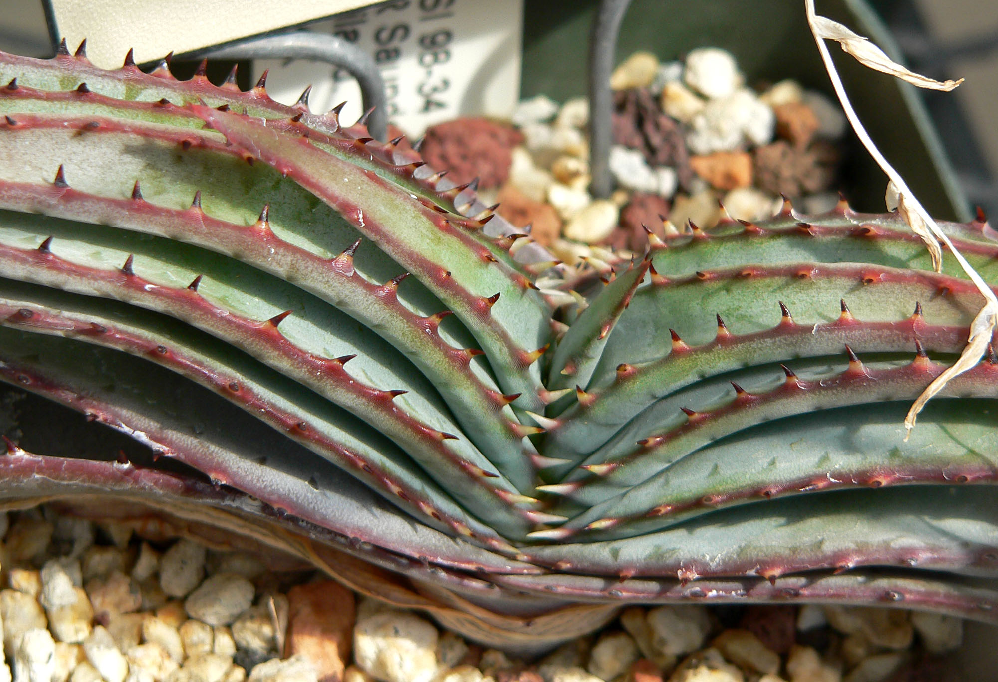 Aloe suprafoliata at the University of California Botanical Garden, Berkeley, California